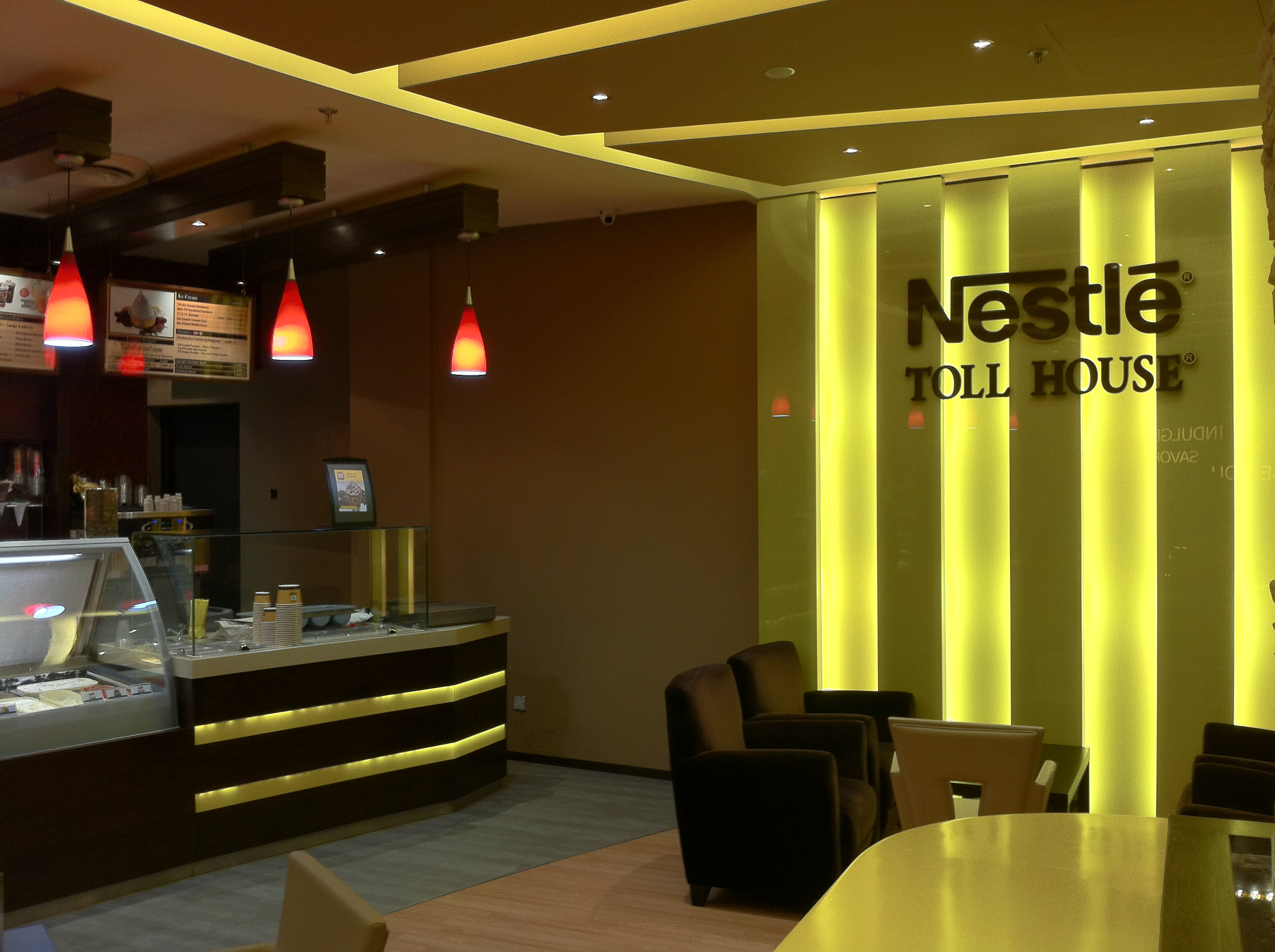 Inside Nestle Toll House Cafe in Kuwait